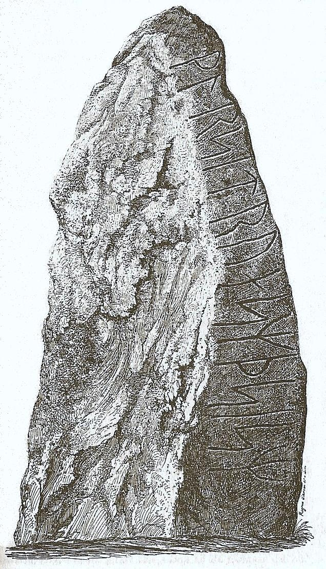 Istaby runestone drawing.